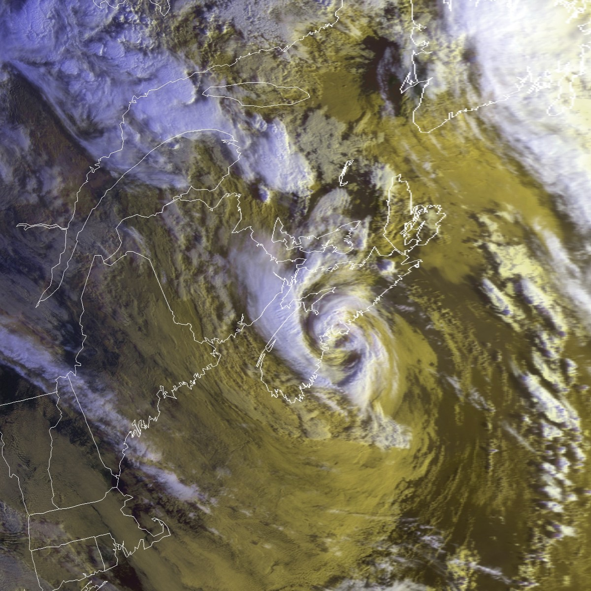 This image shows an an unnamed tropical storm making landfall on Nova Scotia on November 2 at 1305 UTC.. This image was produced from data from NOAA-12, provided by NOAA.